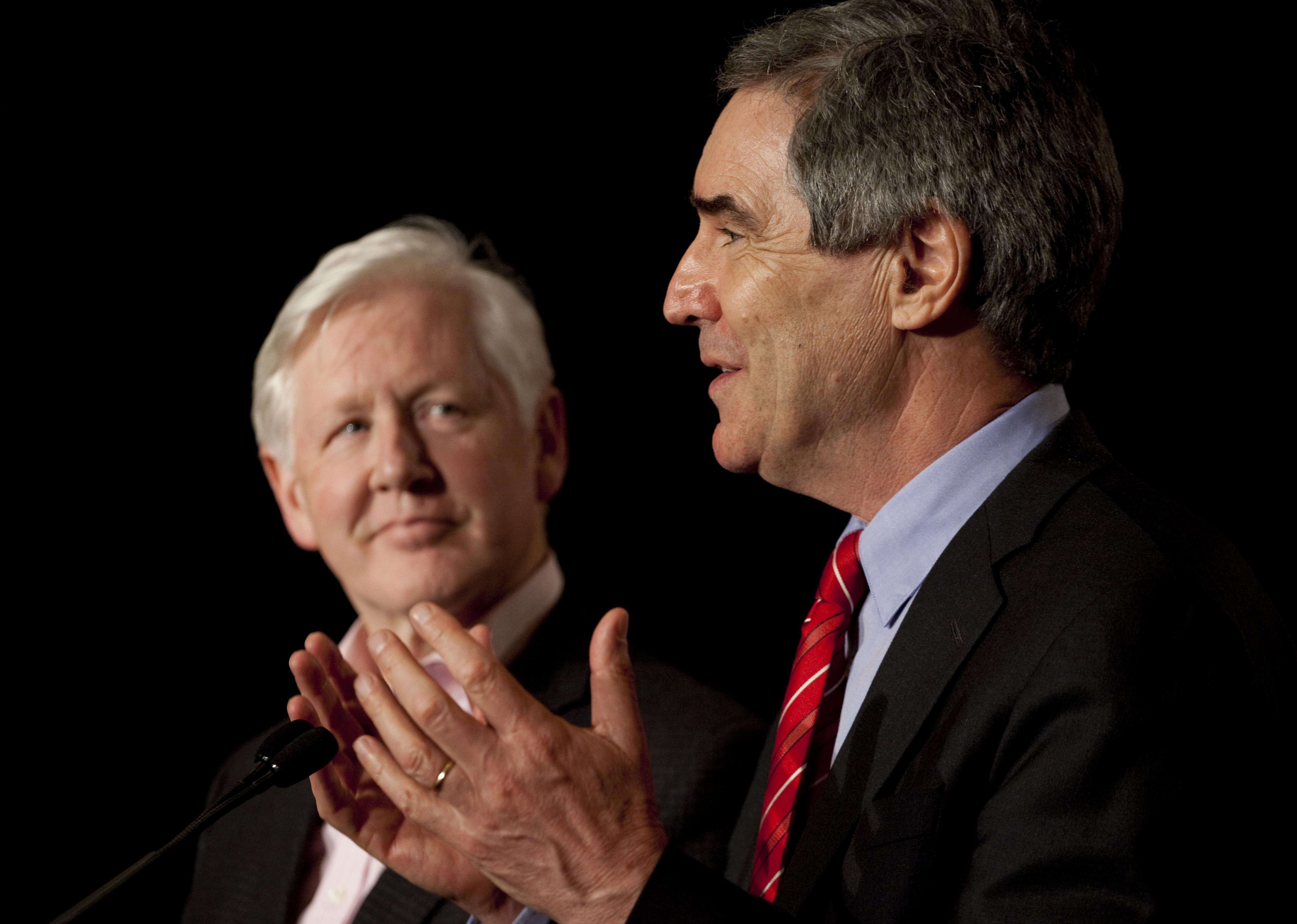 Liberal leader Michael Ignatieff and Liberal M.P. Bob Rae visit a Khalsa celebration in Toronto, Ontario, Canada.